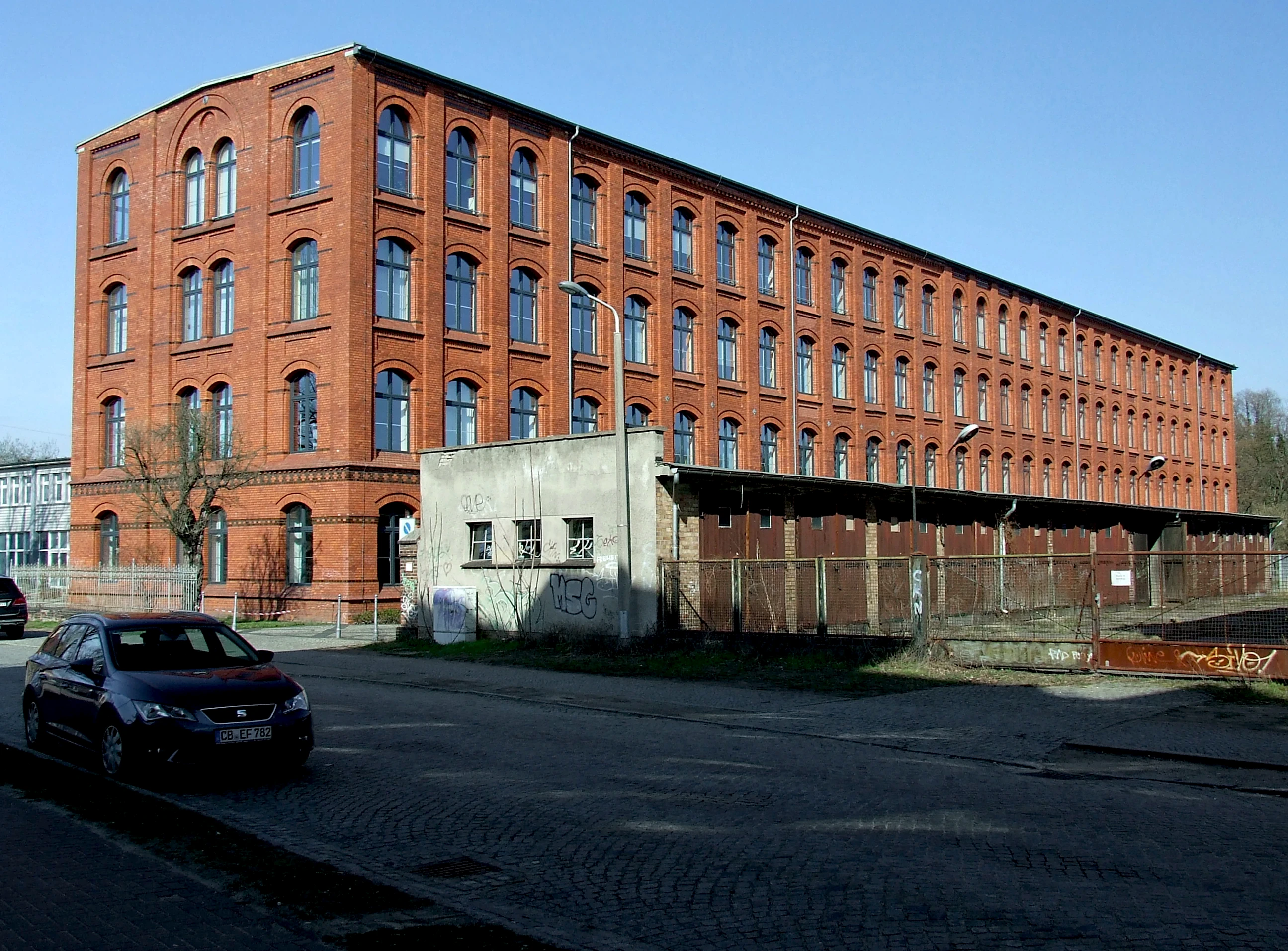 Former cloth factory Textor & Prochatschek, Parzellenstraße 10 in Cottbus-Spremberger Vorstadt which houses the Cottbus branch of Deutsches Erwachsenen-Bildungswerk. Shown here is the factory building (Haus D) from the south.